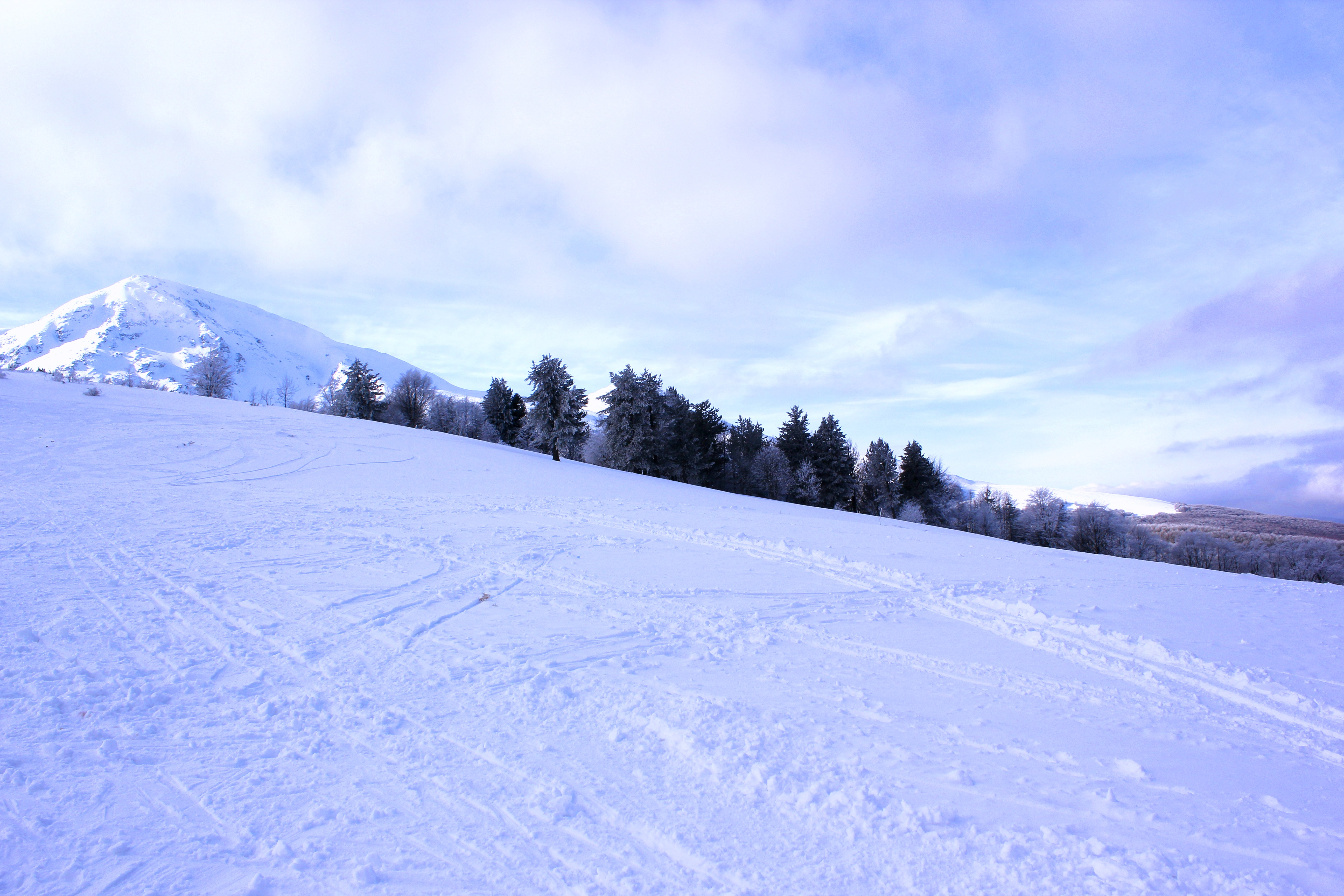 Kosove. Prevalle. WInter 2013. A beautiful landscape of Prevalla mountains.